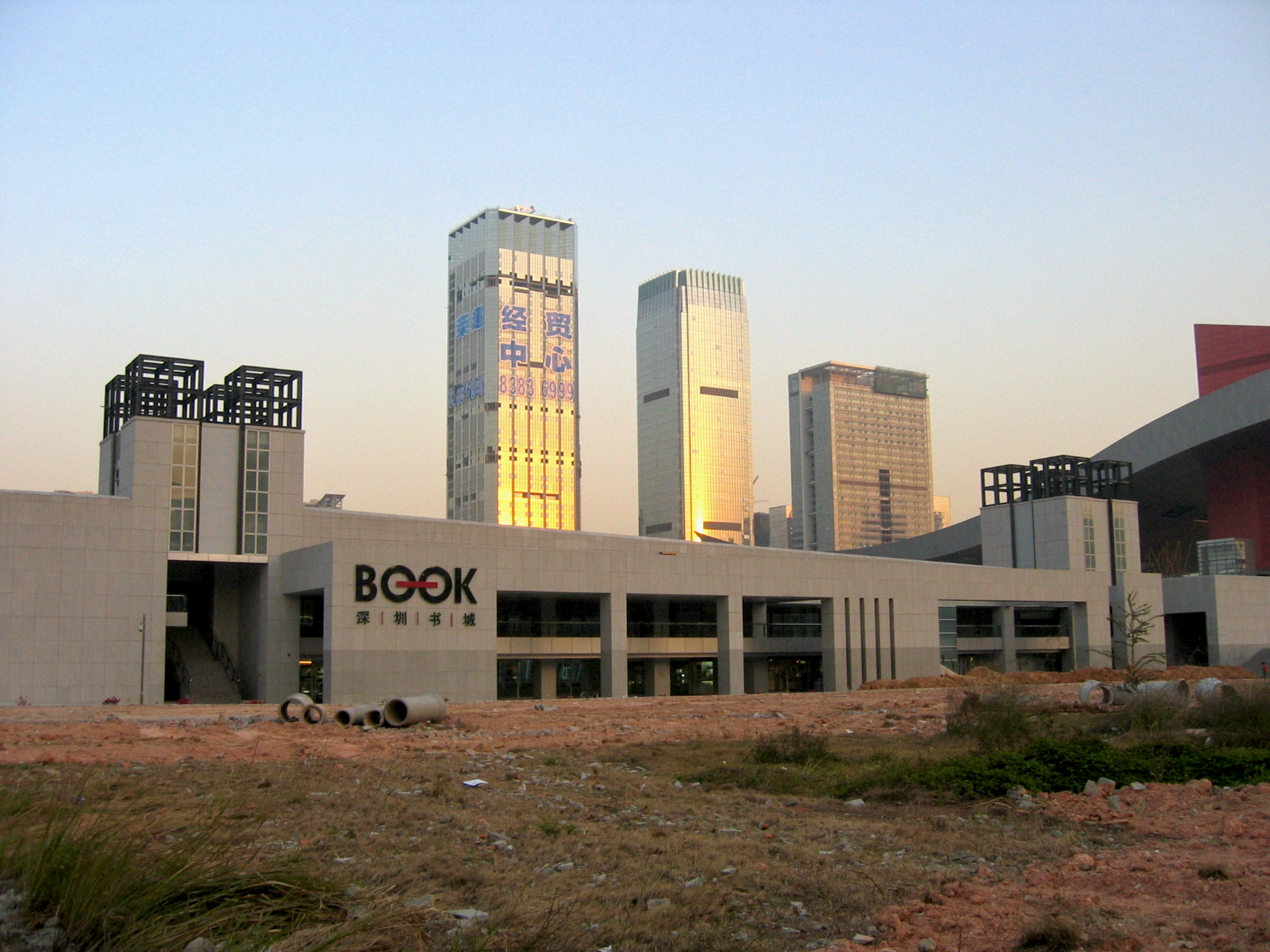 Shenzhen Book City Centre City 深圳書城中心城